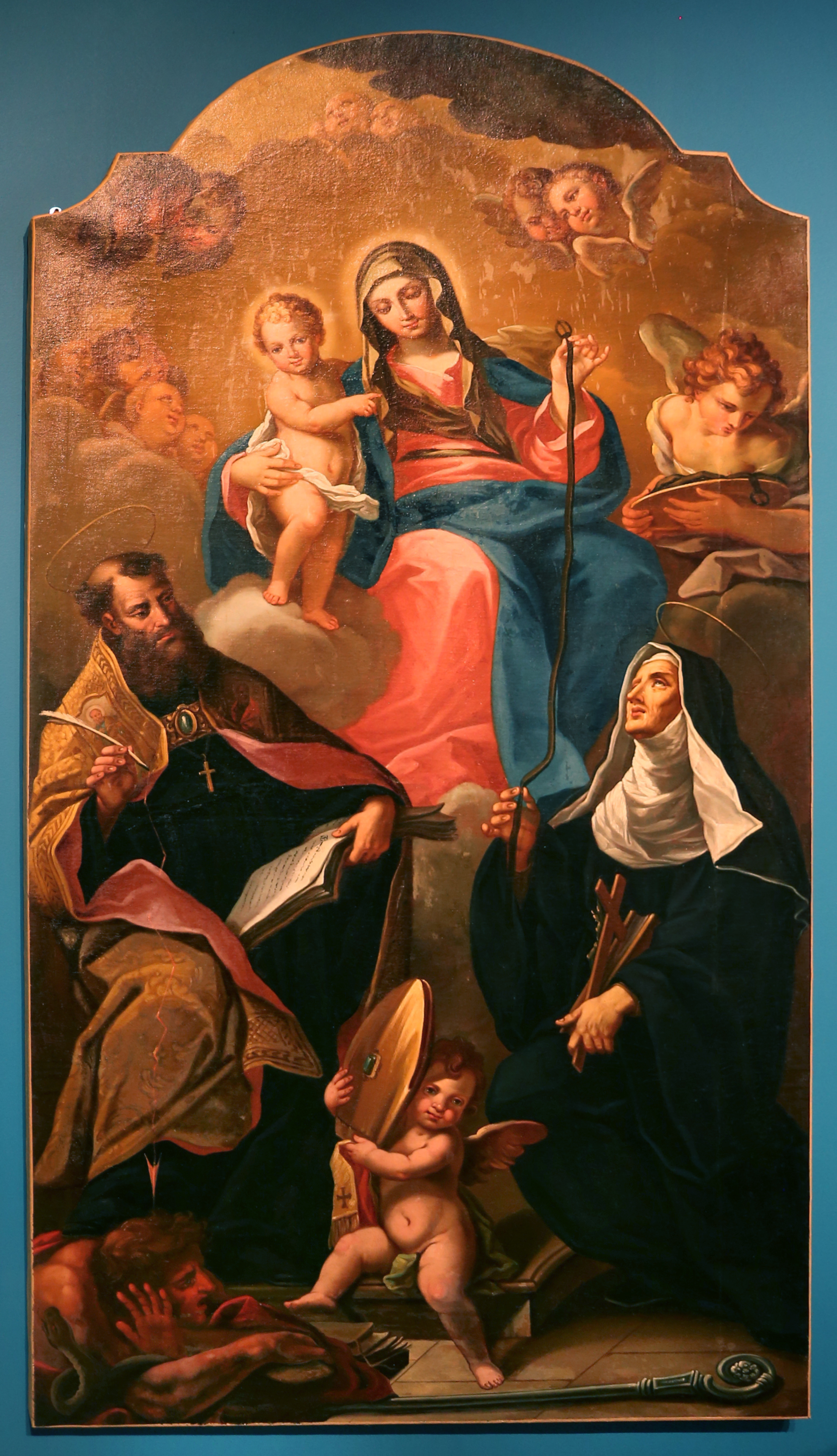 Capolavori Sibillini (2017-2018 exhibition)